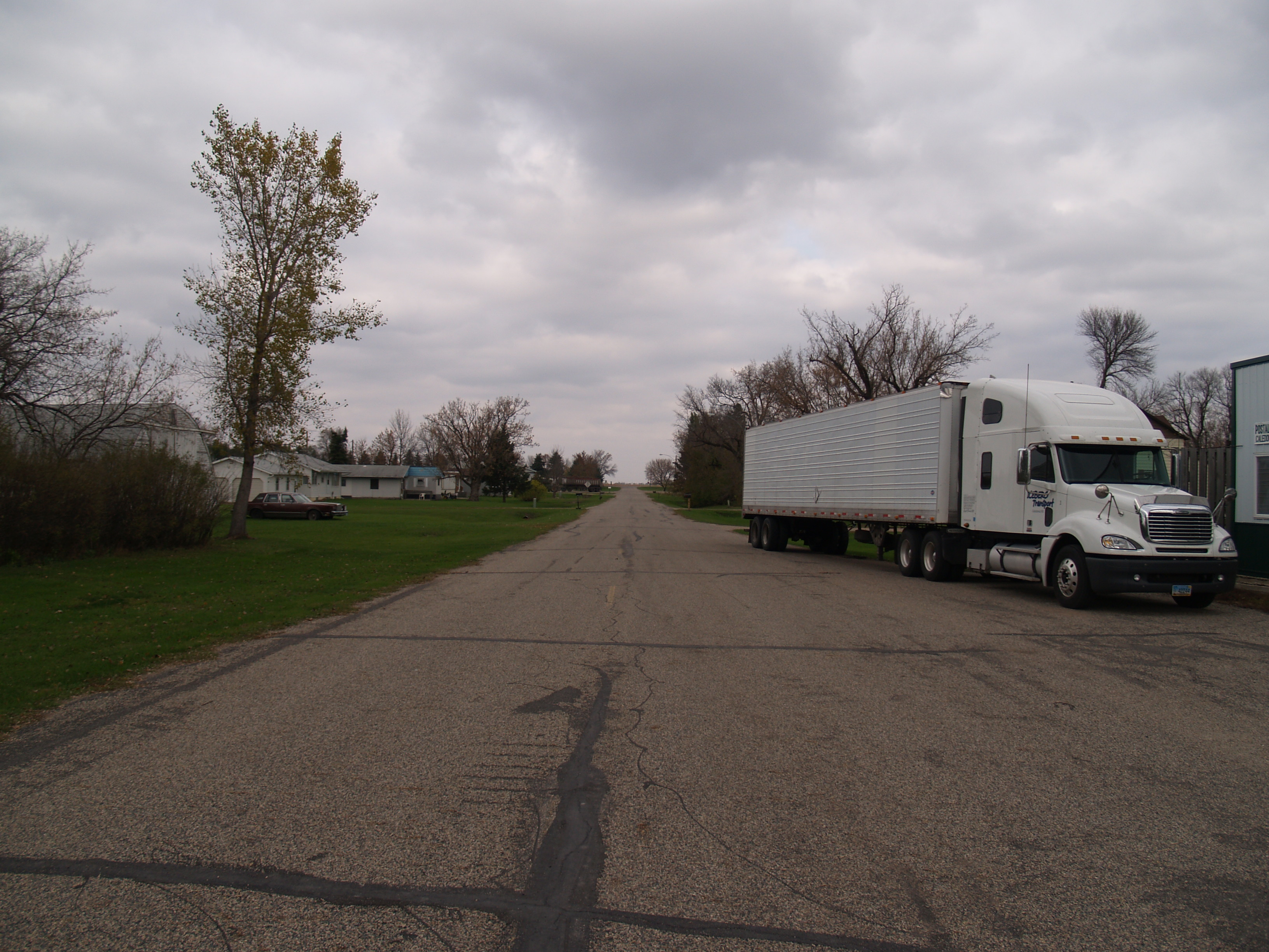 Caledonia, North Dakota.